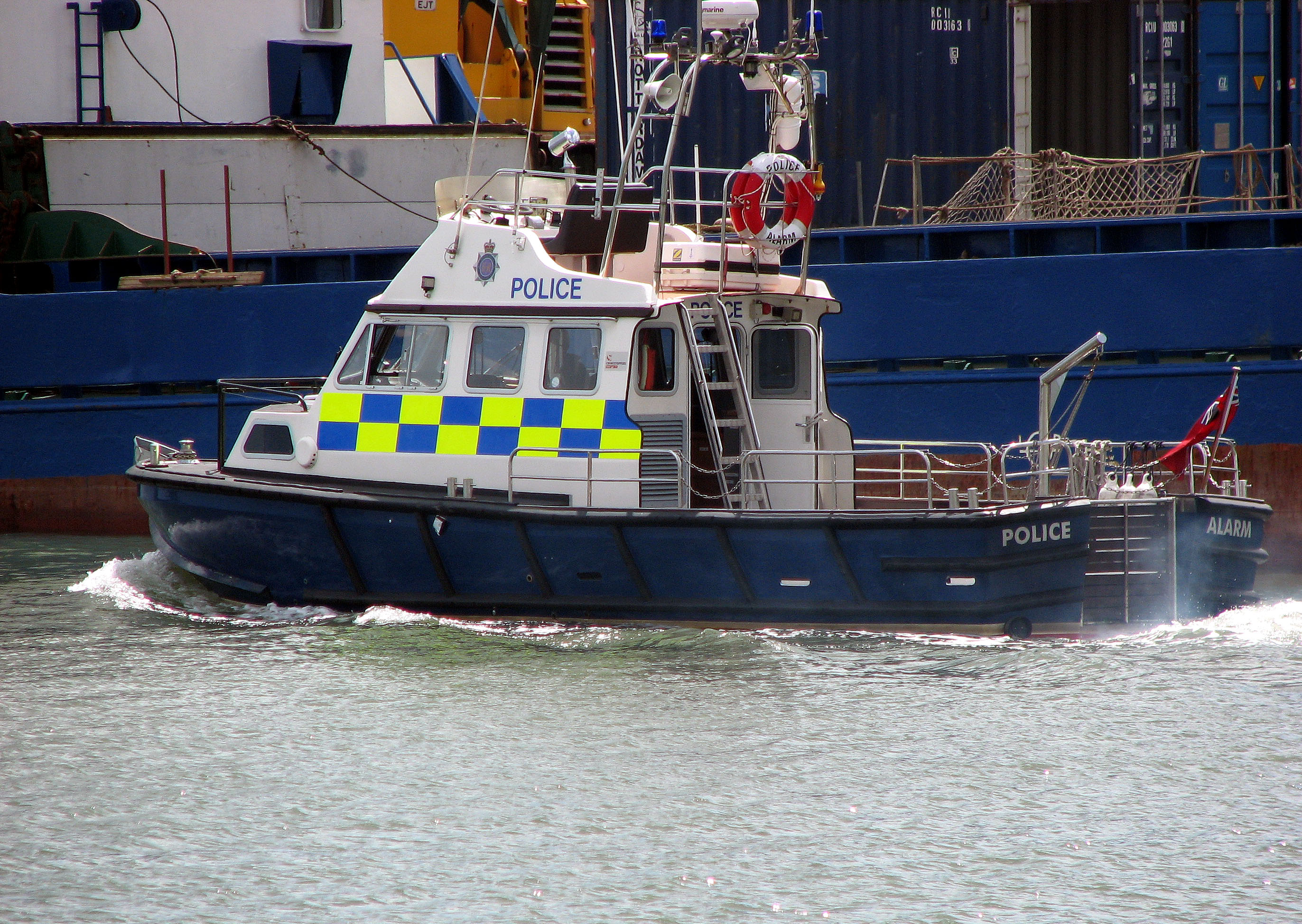 A police boat in Poole Harbour, Dorset, England. Photographed by Adrian Pingstone in June 2006 and placed in the public domain.